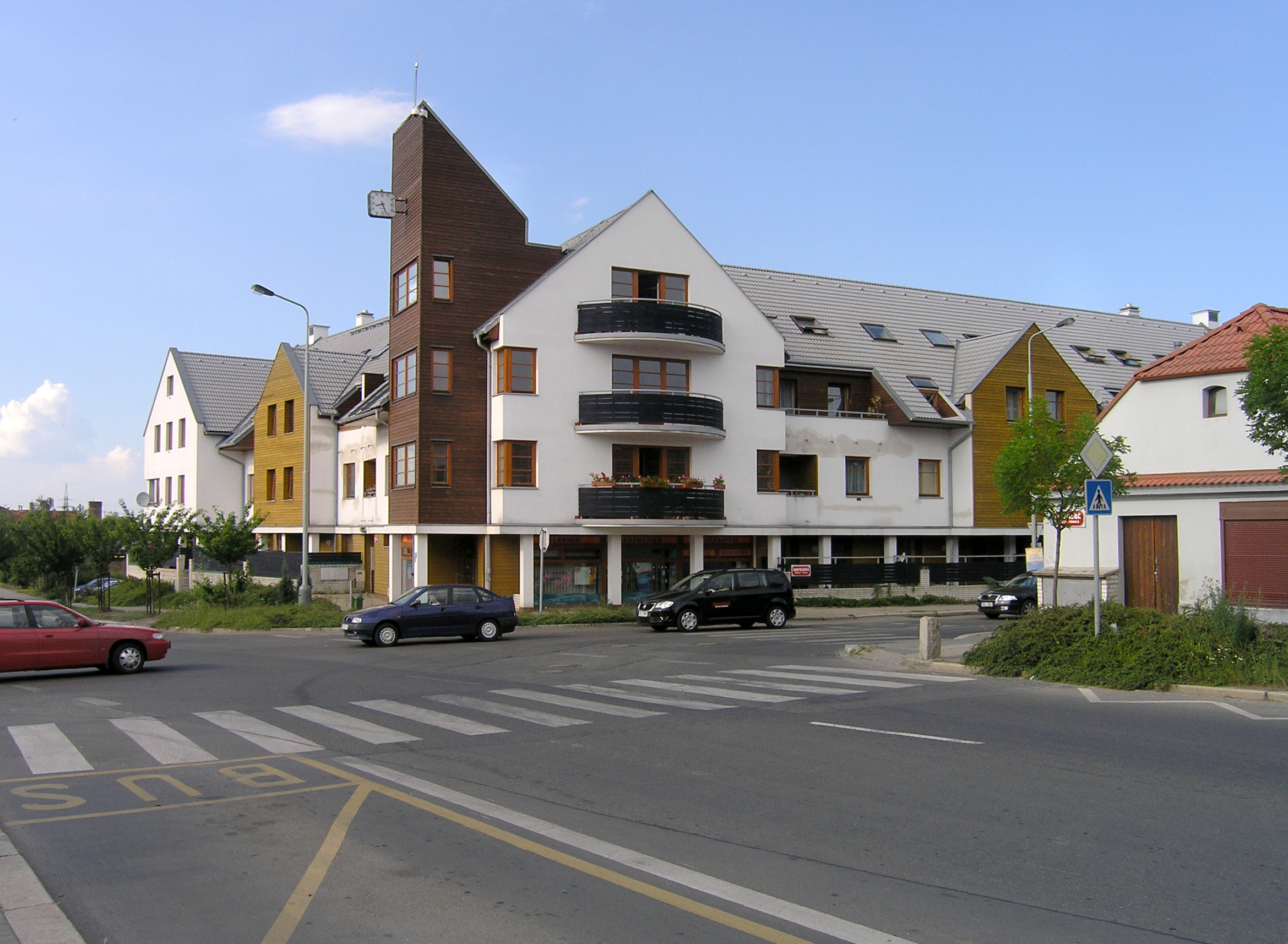 New hosiung by intersection of Ďáblická street with Kostelecká street at Ďáblice, Prague